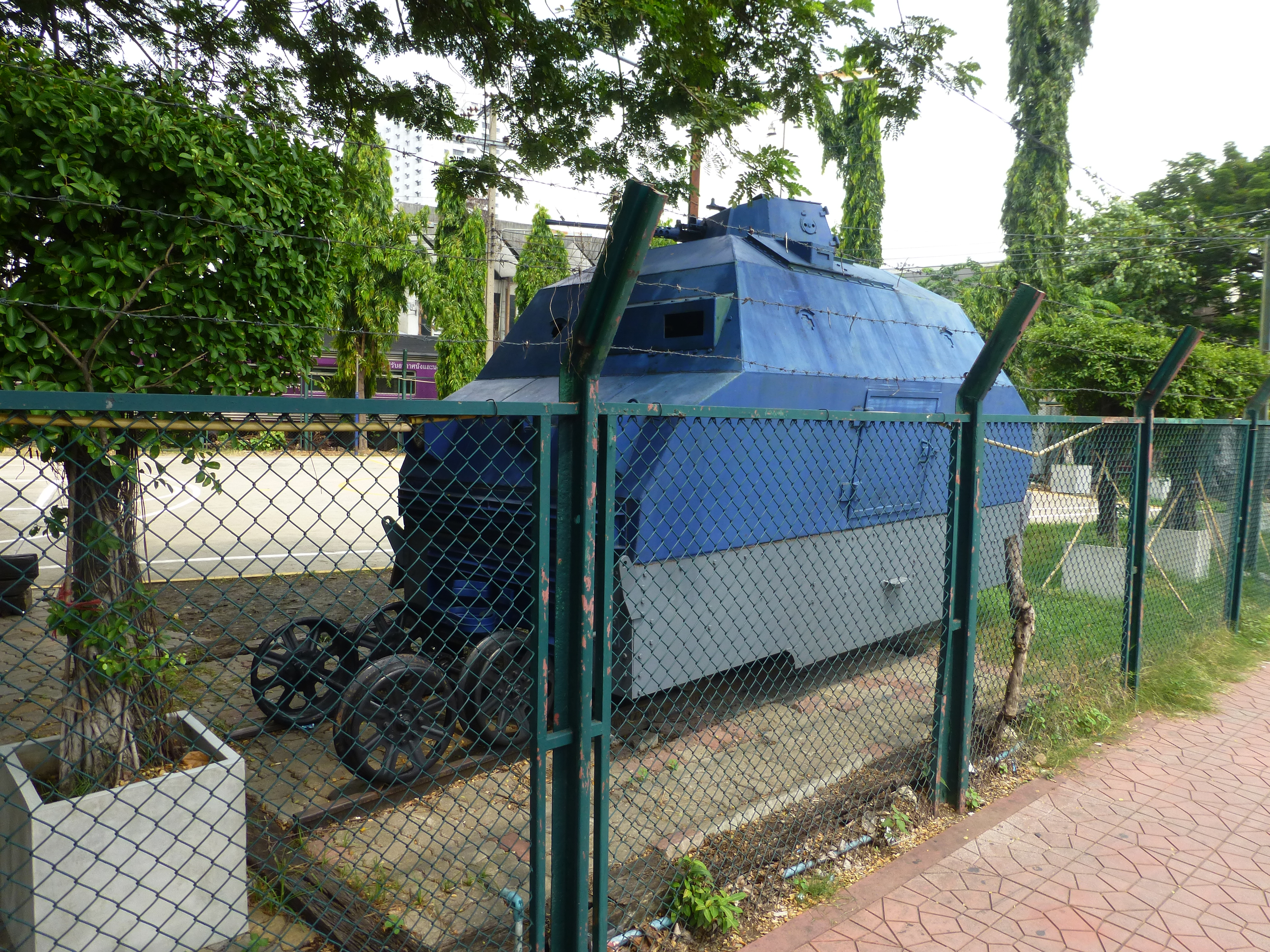 Armoured train in Thailand